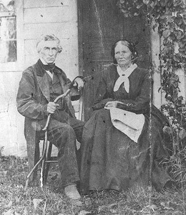 Artist and abolitionist Sheldon Peck and his wife Harriet. Pictured in front of their house in Lombard, IL.